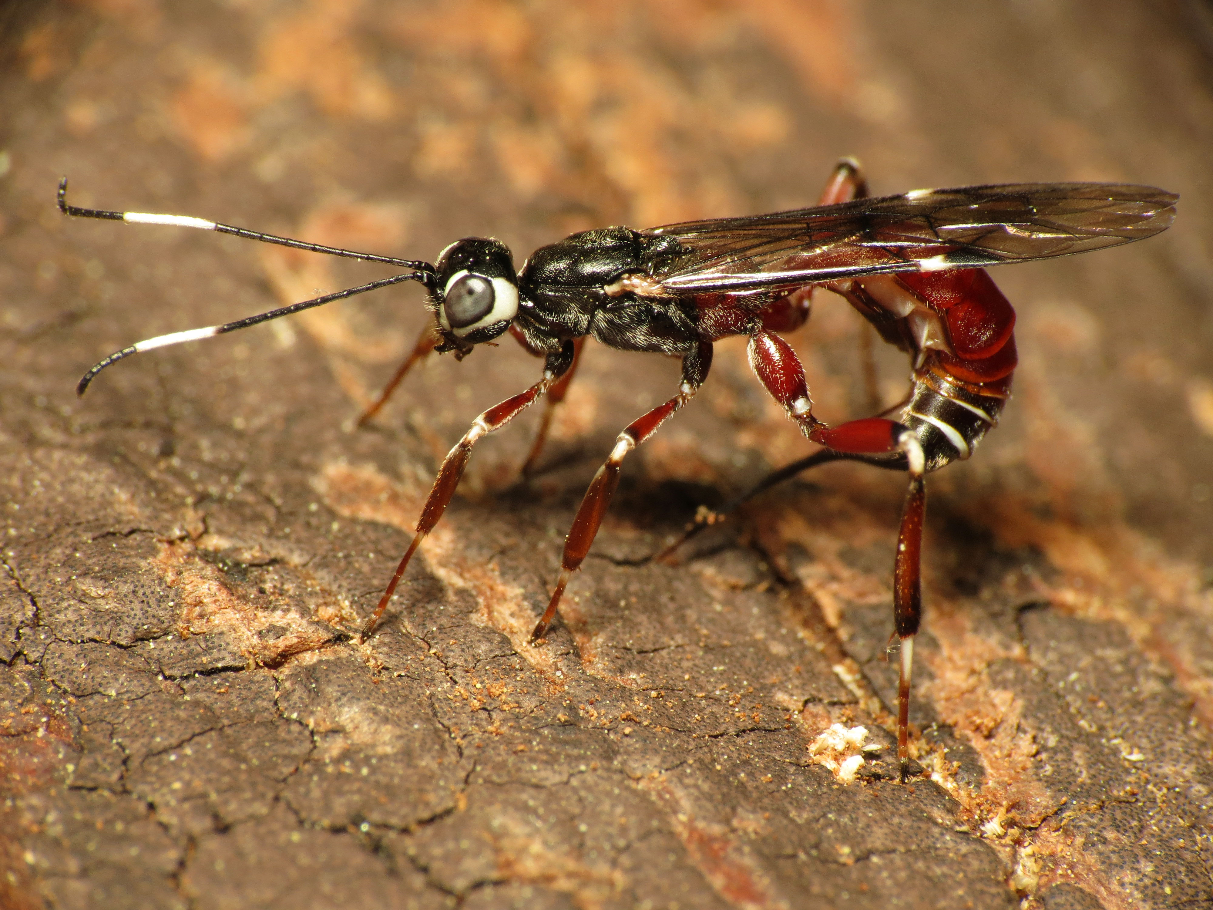 Xorides calidus. Rock Creek Park, Washington, DC, USA. 3 May 2014. Thanks to [/photos/panoramique/ bleu.geo] for the id!